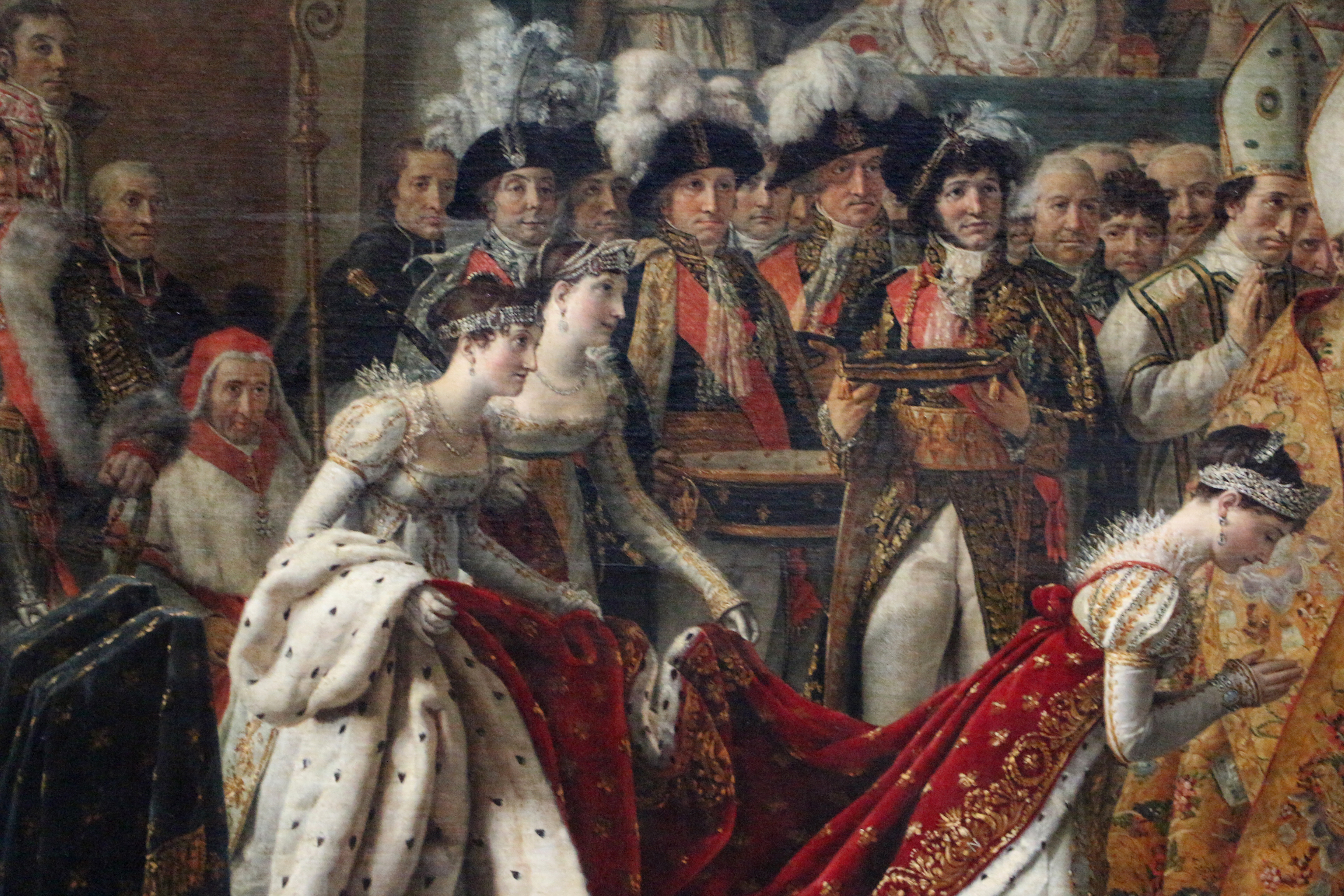 Paintings by Jacques-Louis David in the Louvre